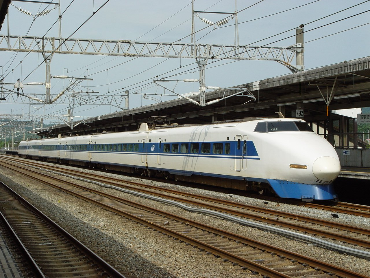 JR West 100 series 6-car set K53 on the Kodama 629 service at Higashi-Hiroshima in original white/blue livery